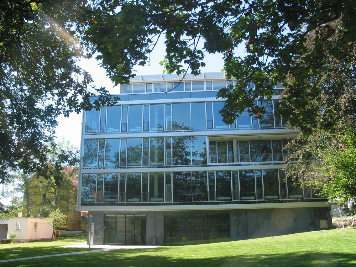 University of Cooperative Science Villingen-Schwenningen